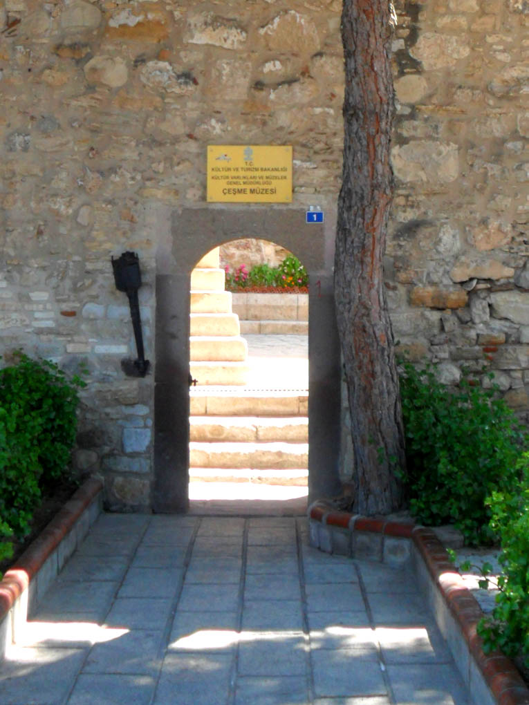 Çeşme Museum gate iç Çeşme, İzmir Province, Turkey